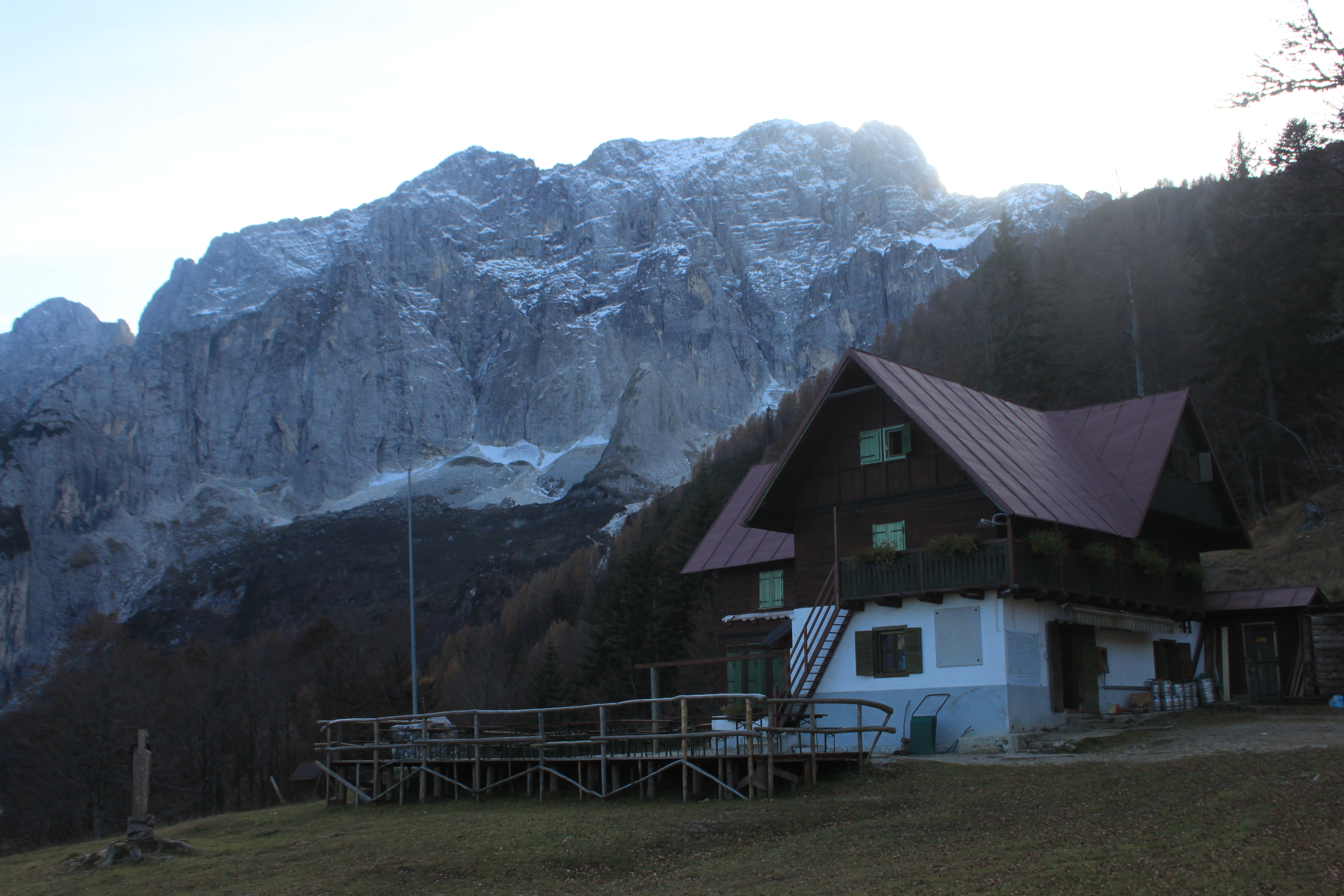 Rifugio Fratelli Grego, 1,390m, alpine hut in Julian Alps, Italy, with mount Jôf di Montasio.